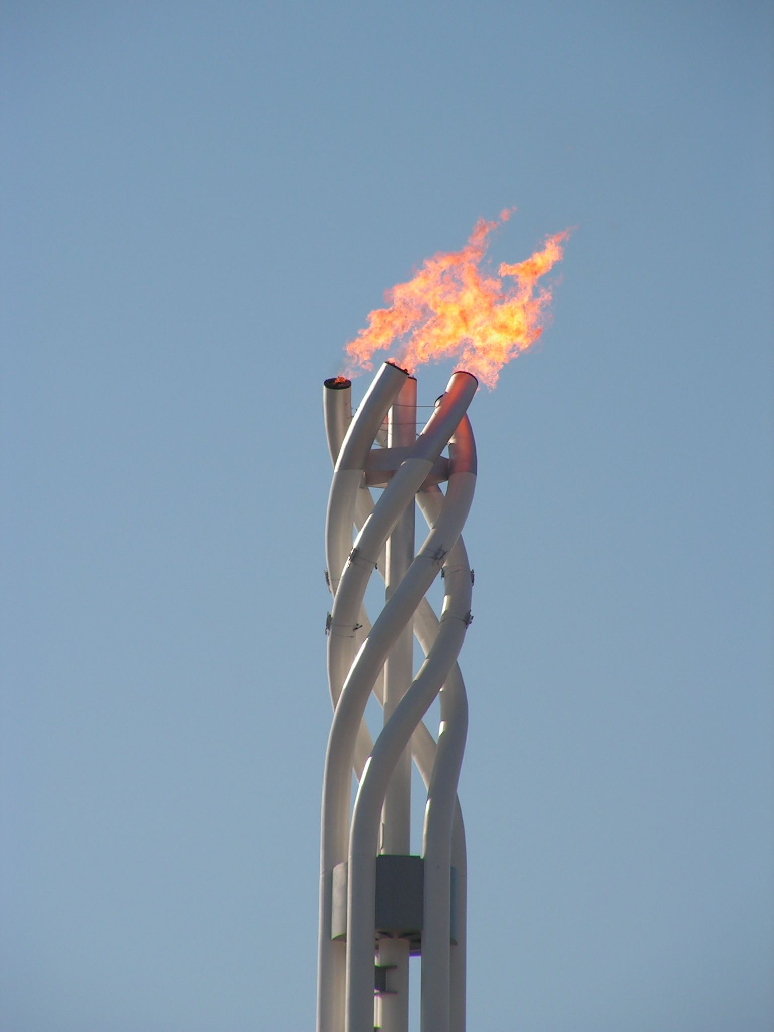 The Olympic flame of Turin 2006.